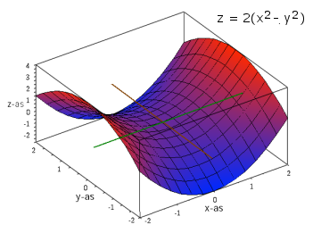 Saddle point with tangent lines